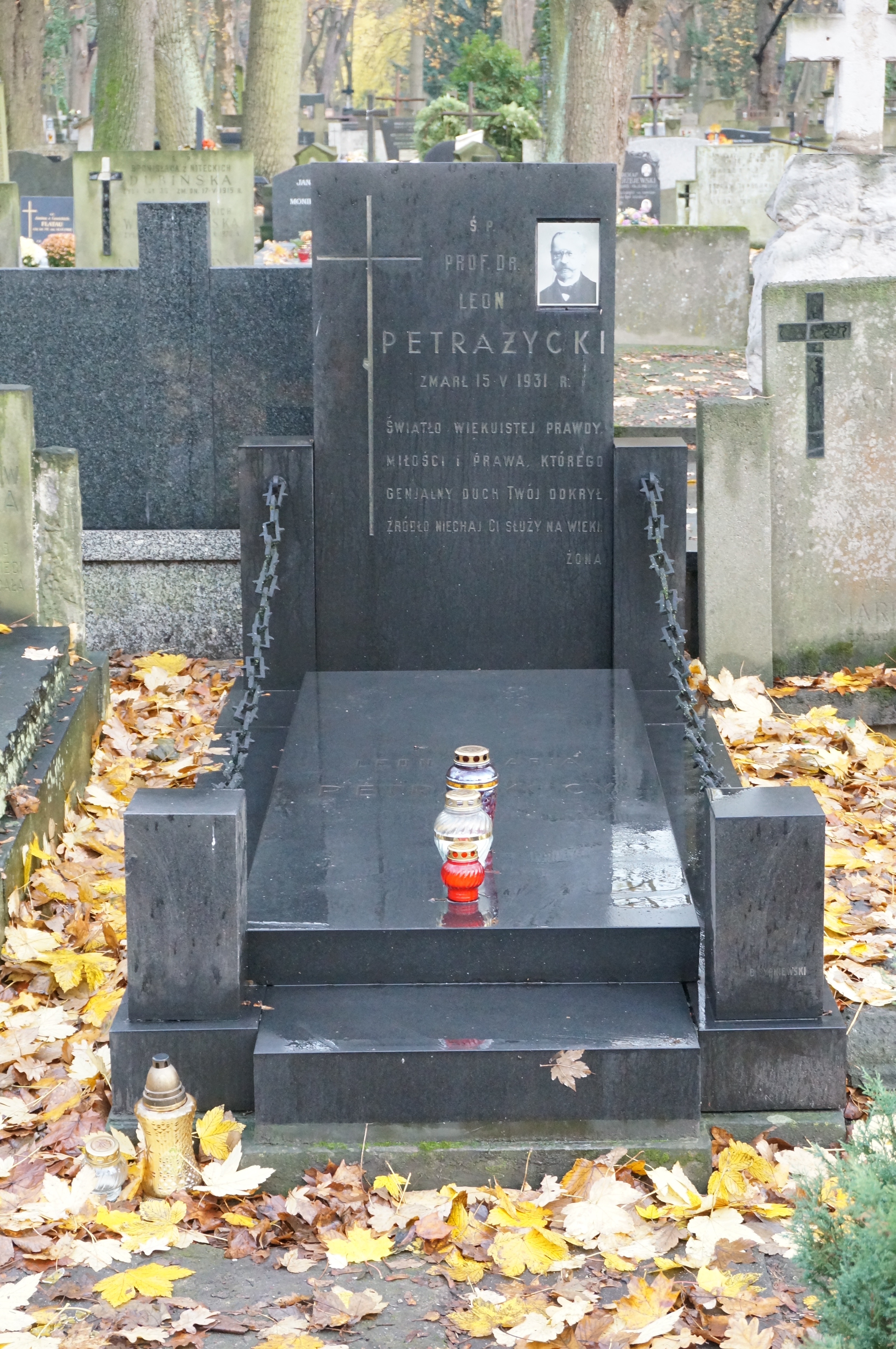 The grave of Leon Petrażycki at the Powązki Cemetery (section 309, row 4, grave 6)